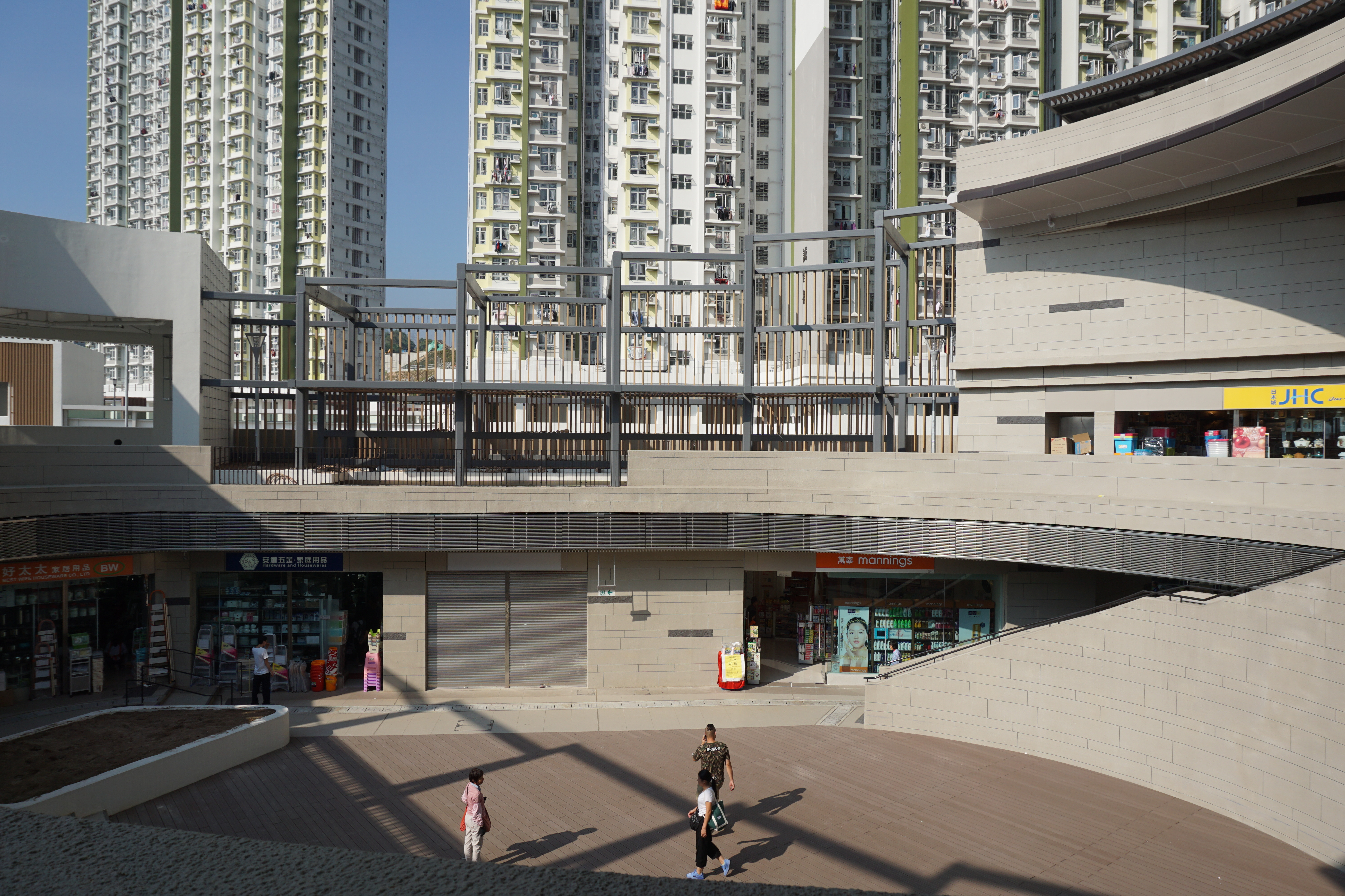 On Tat Shopping Centre in Kwun Tong, Hong Kong.